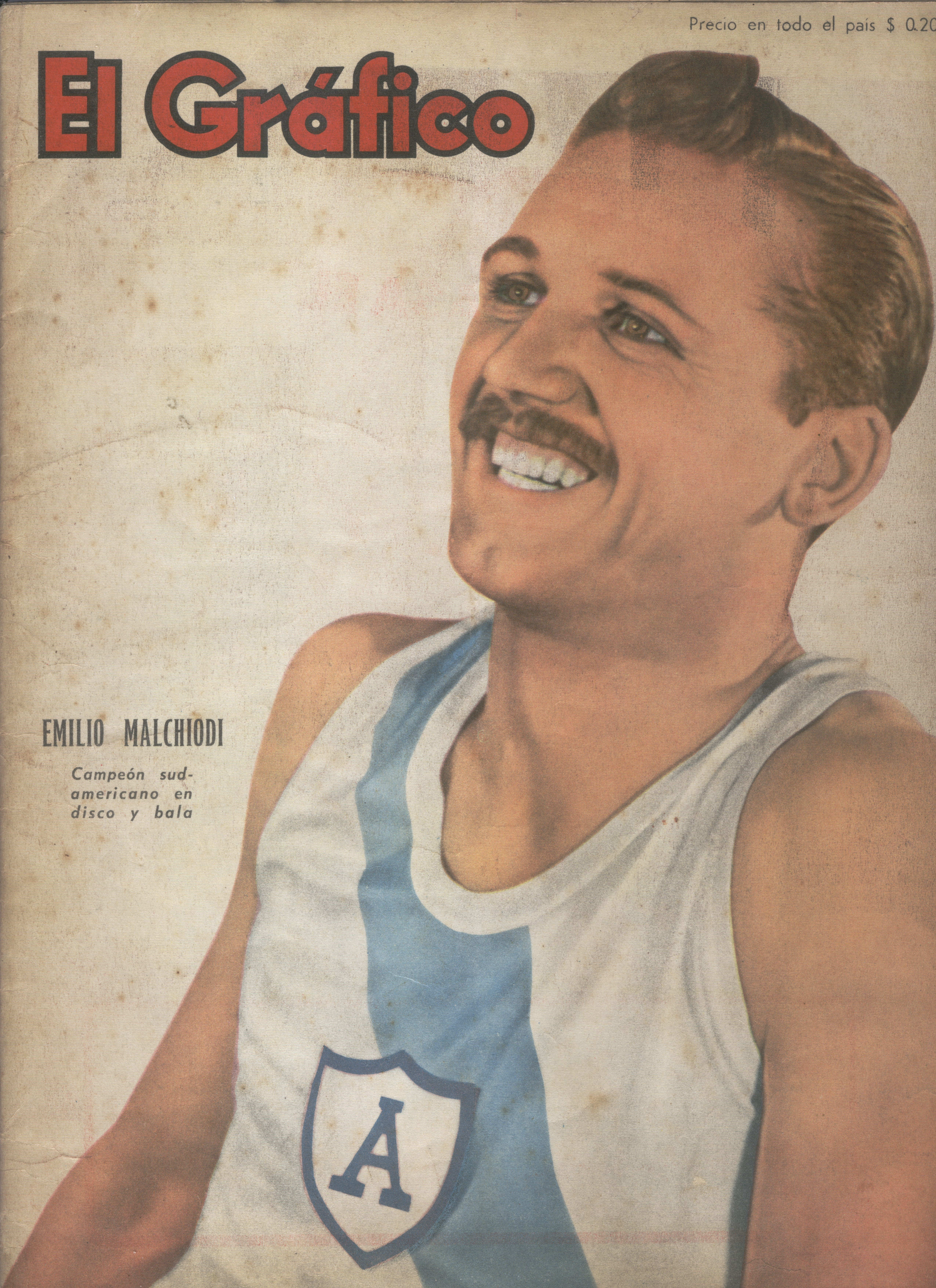 Emilio Malchiodi, El Grafico Magazine